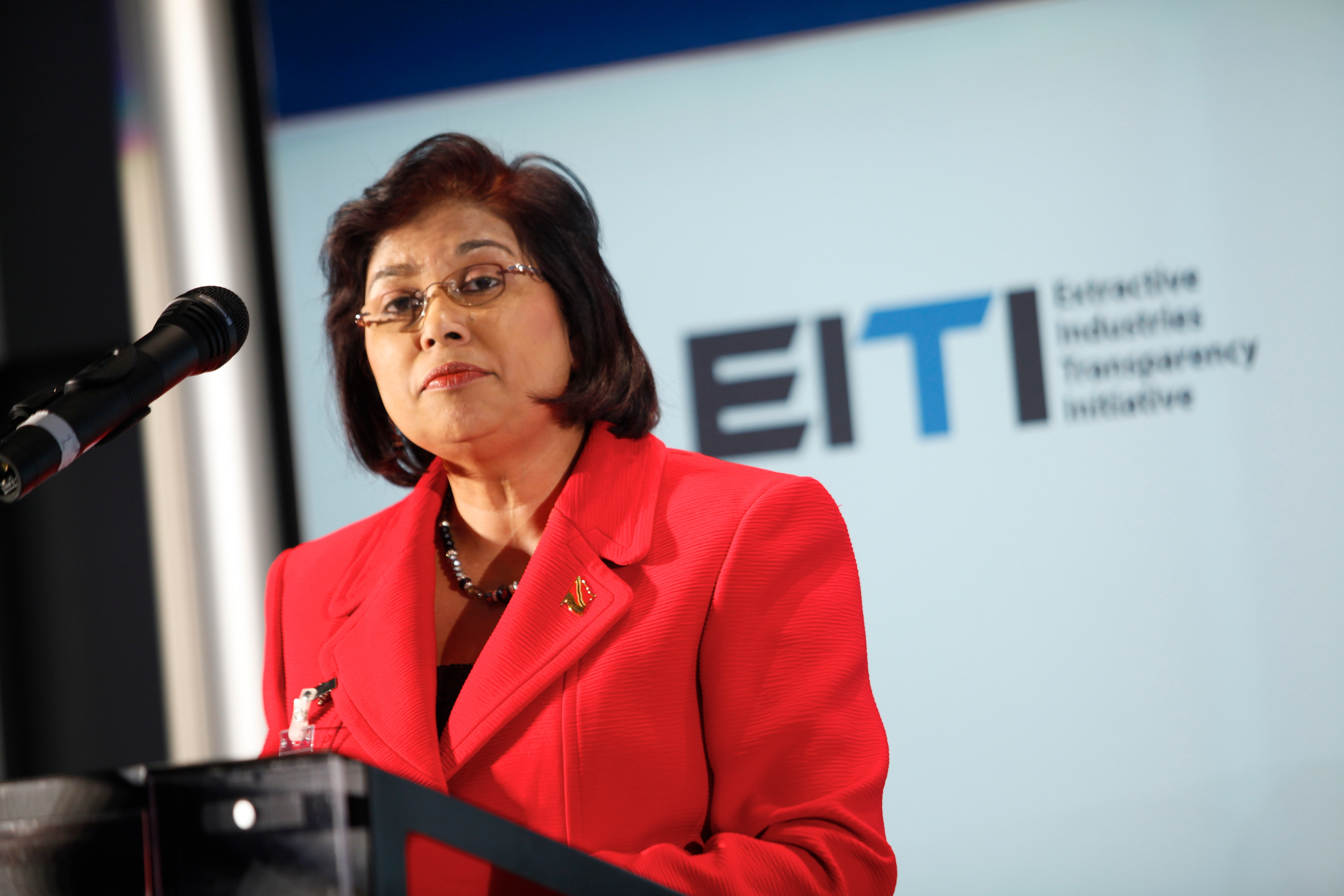 HE Carolyn Seepersad-Bachan, Minister of Energy & Energy Affairs of Trinidad & Tobago, during the 5th EITI Global Conference in Paris, France